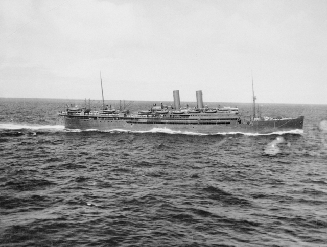 SS Slamat during World War II, most likely while transporting Australian soldiers to the Middle East as part of Convoy US.5 in August 1940. The ship was sunk by German aircraft during the Allied evacuation of Greece on 26 April 1941 with heavy loss of life.